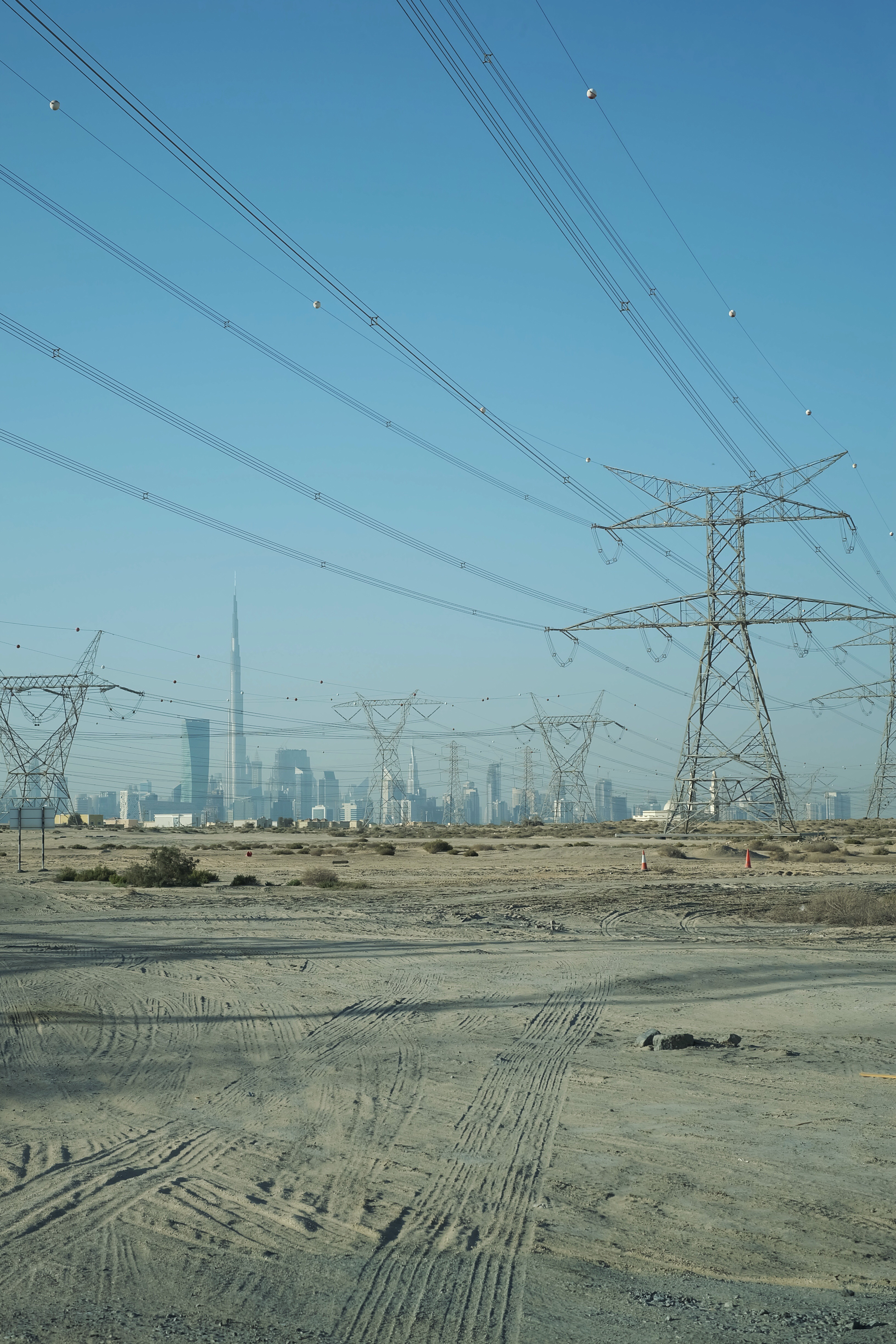 Dubai, electricity pylons